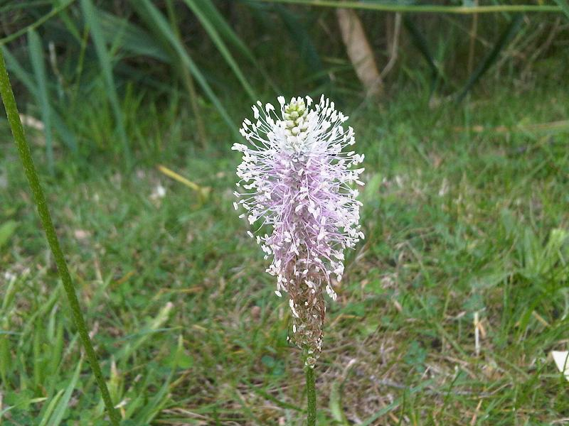 Hoary plantain (Plantago media) flower in WWT London Wetland Centre, England.